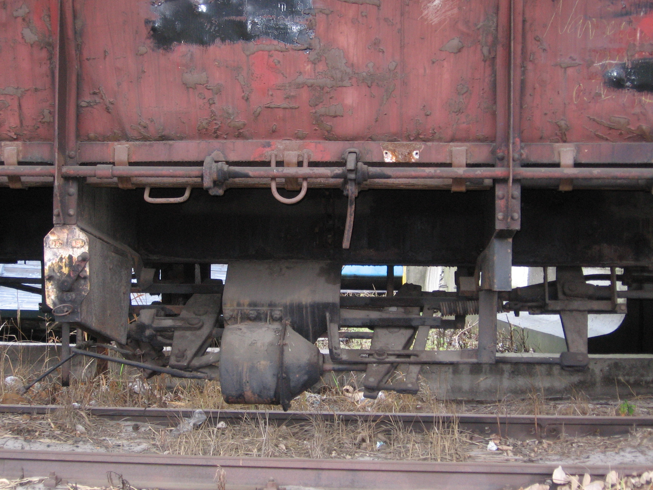 ČSD wagon Vsa in depot Olomouc - brake equipment